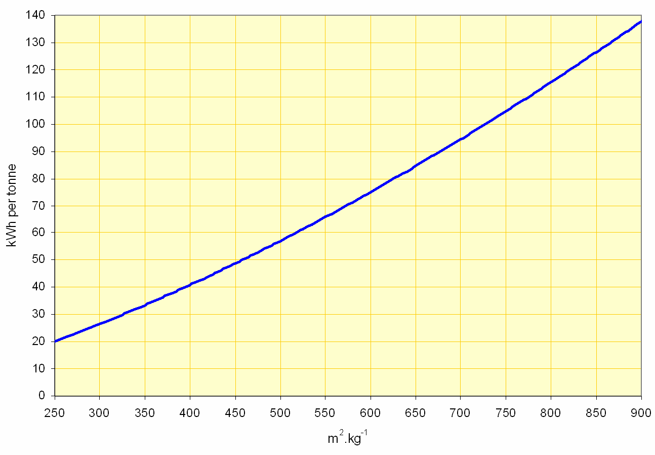 LD (author): Cement mill power consumption versus cement fineness: typical relationship.